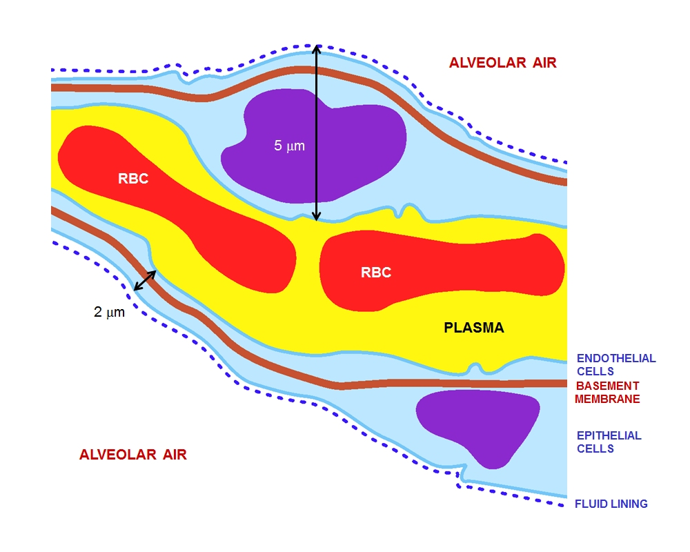 A histological cross-section through an alveolar wall showing the layers through which the gases have to move between the blood plasma and the alveolar air. The dark blue objects are the nuclei of the alveolar type I epithelial cells (or pneumocytes).